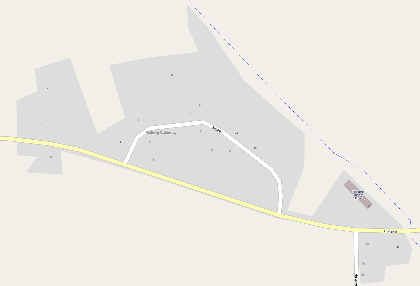 Map of Solbjerg Sationsby in Denmark This map may be incomplete, and may contain errors. Don't rely solely on it for navigation.